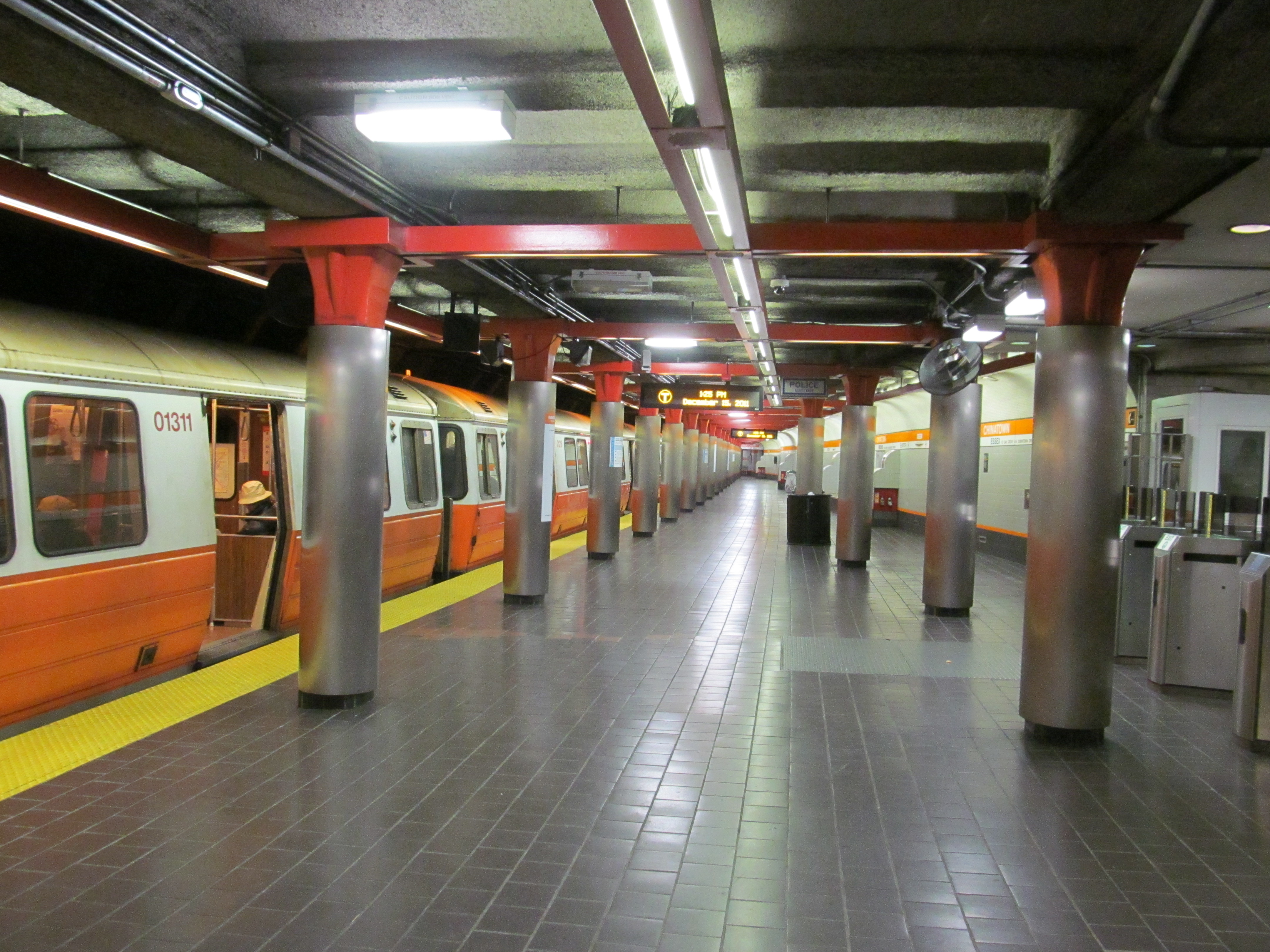 Inbound platform at Chinatown station on the MBTA Orange Line